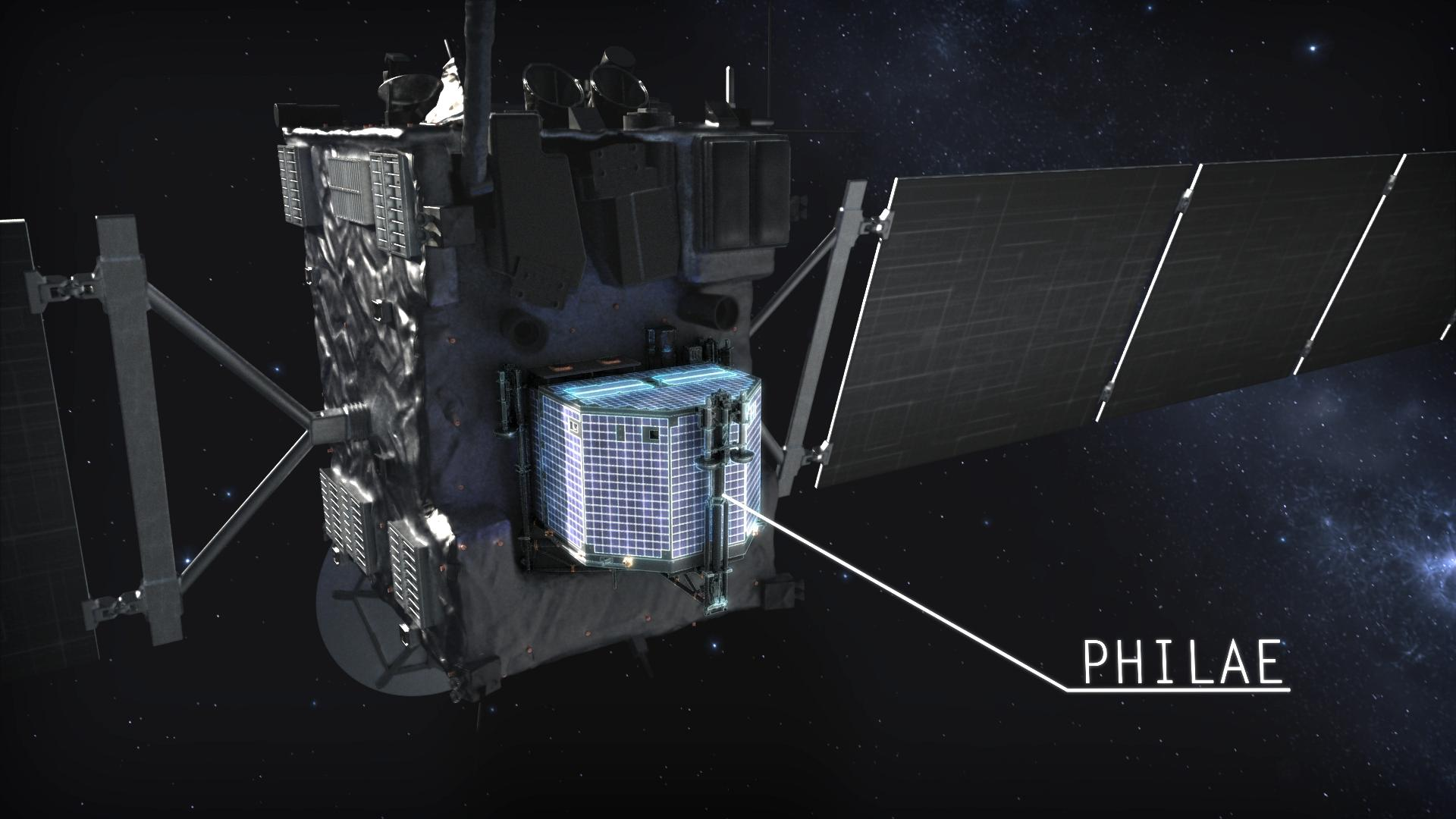 Rosetta with Philae lander, before separation. Frame from the movie "Chasing A Comet – The Rosetta Mission".